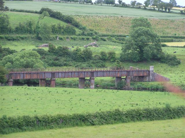 Old railway bridge at Victoria Bridge. Probably not to safe to go over now.